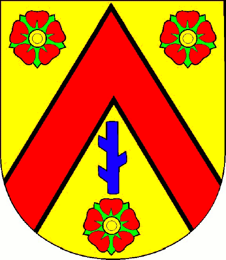 Municipal coat of arms of Police nad Metují town, Náchod District, Czech Republic.